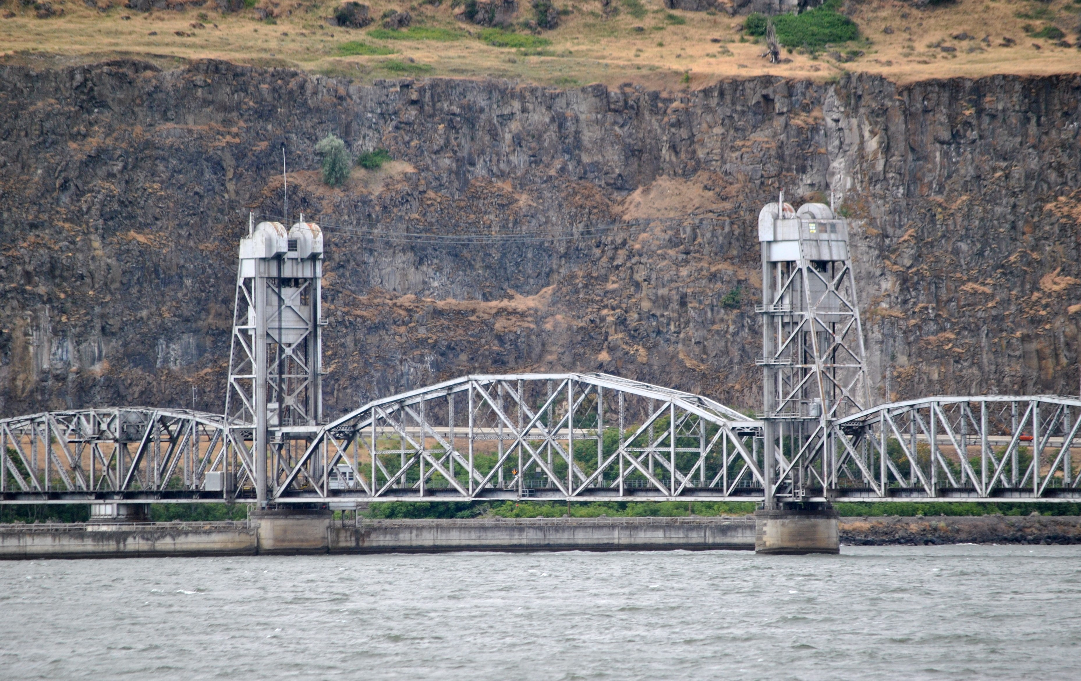 The lift span of the Oregon Trunk Rail Bridge (or Celilo Bridge) lowered for rail traffic. The span at the far left is a former swing span. Photo taken from the westbound Empire Builder, passing by on the Washington side of the Columbia River, en route to Portland.